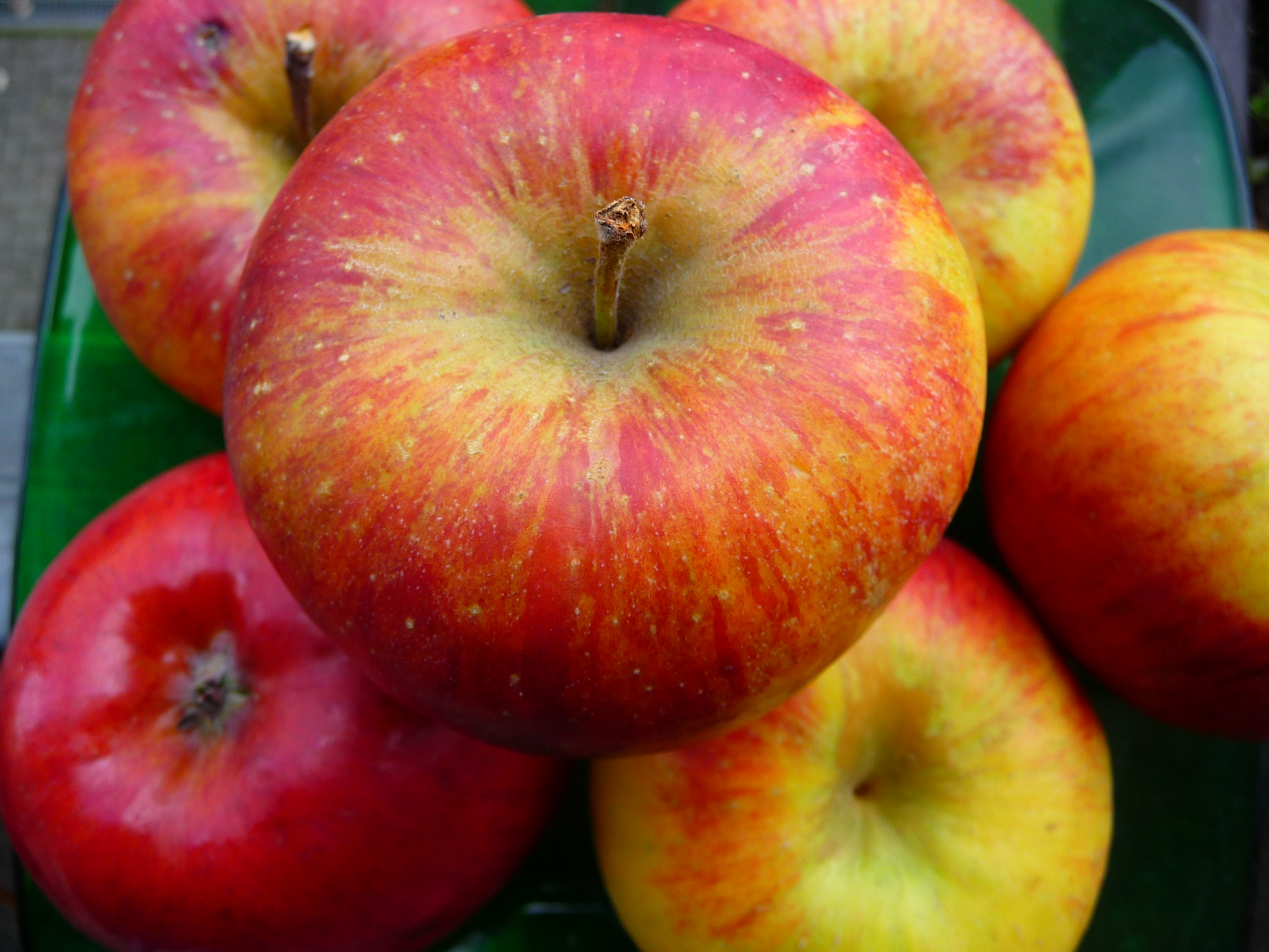 apple 'Topas'